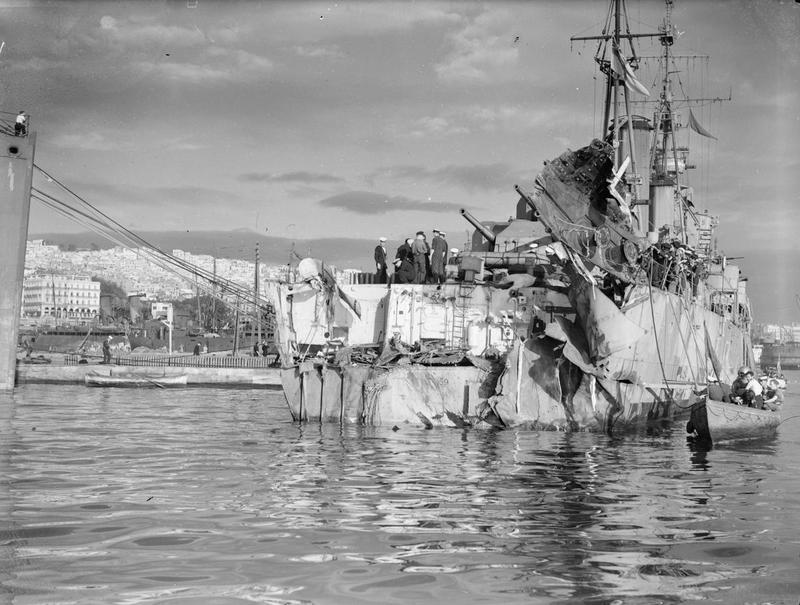 British Cruiser Which Lived To Fight Again. 14 To 19 December 1942, at Sea and at Algiers. the British Cruiser HMS Argonaut After She Had Been Torpedoed in the Mediterranean. Despite Heavy Damage She Got Home, Was Repaired and Served in the Far East. The stern view of the damage which blew away the best part of 45 feet of the quarterdeck.